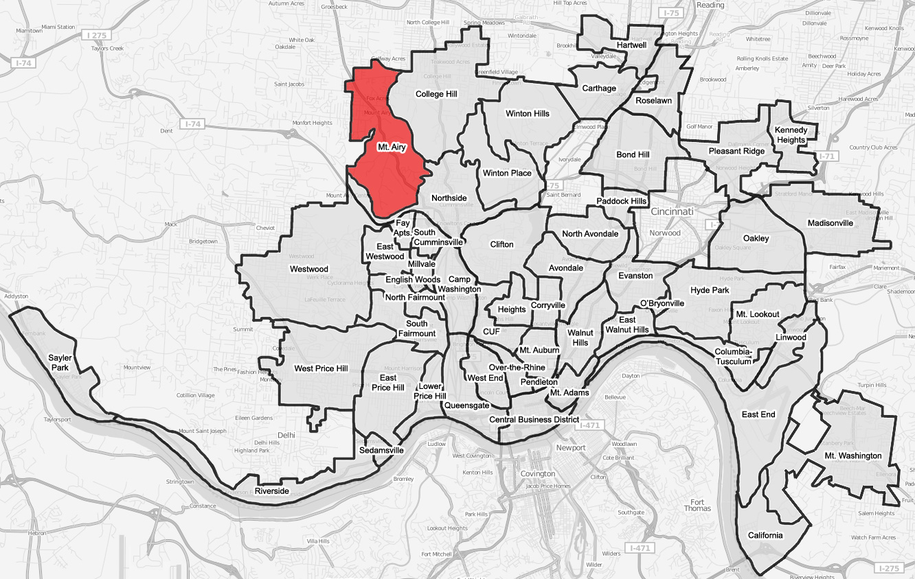 A map of the neighborhood of Mount Airy within Cincinnati, Ohio. Neighborhood lines are based on information from This street map is derived from a free map.